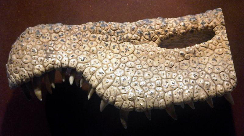 The reconstruction of the snout tip-of Baryonyx at the Natural History Museum in London, England.